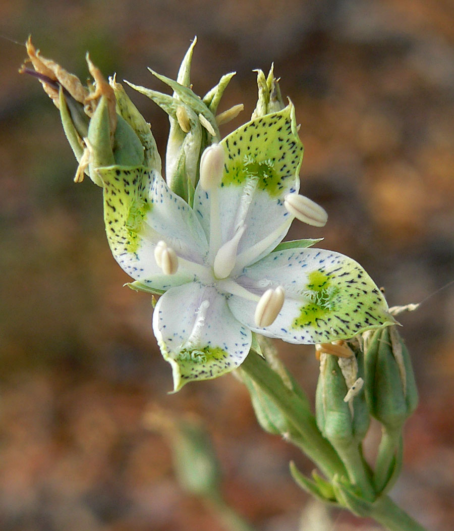 Frasera albomarginata on the North Loop trail east of Mummy Mountain, Spring Mountains, southern Nevada (elev. about 2700 m)